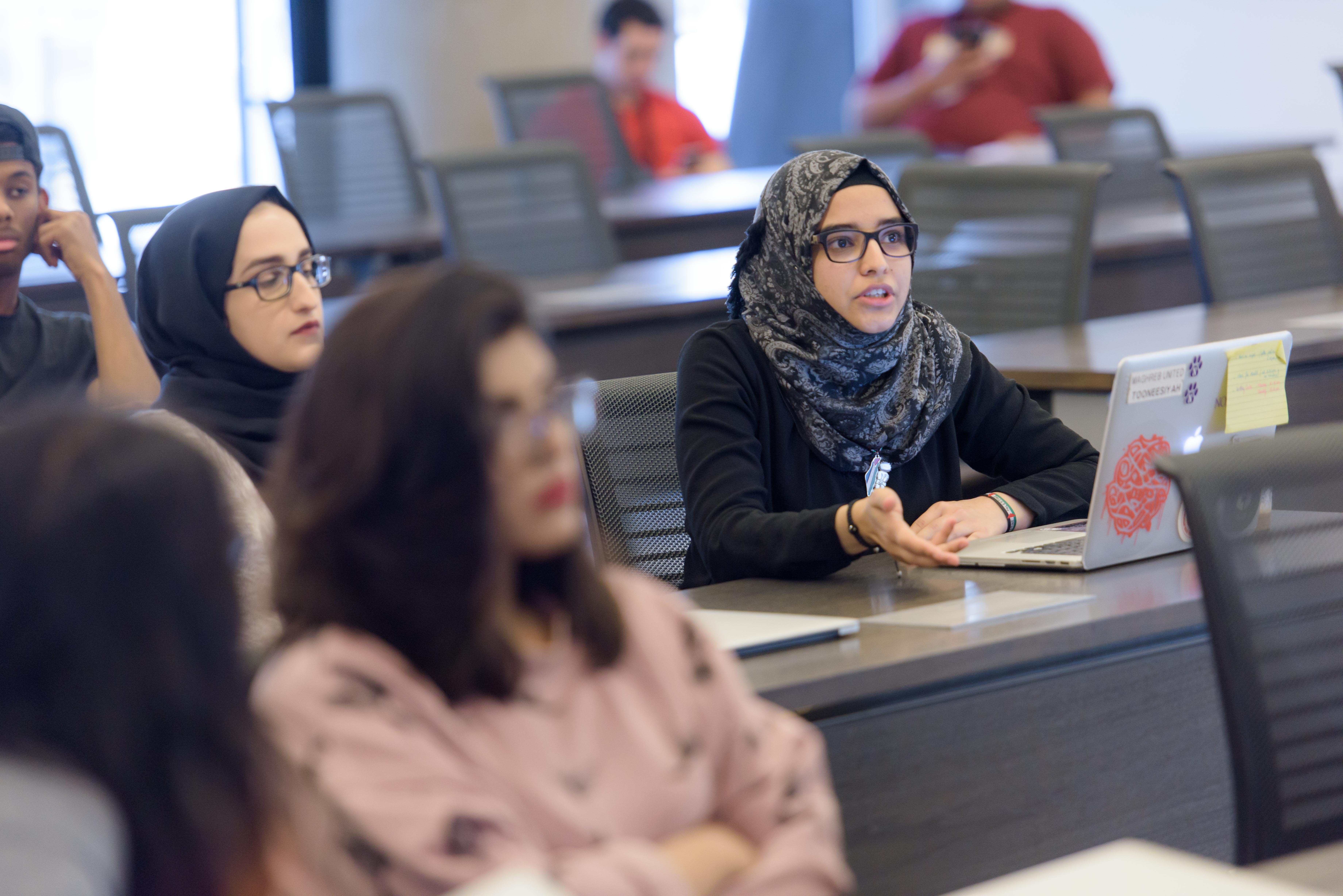 Students participate in a seminar-style class at Northwestern University in Qatar.